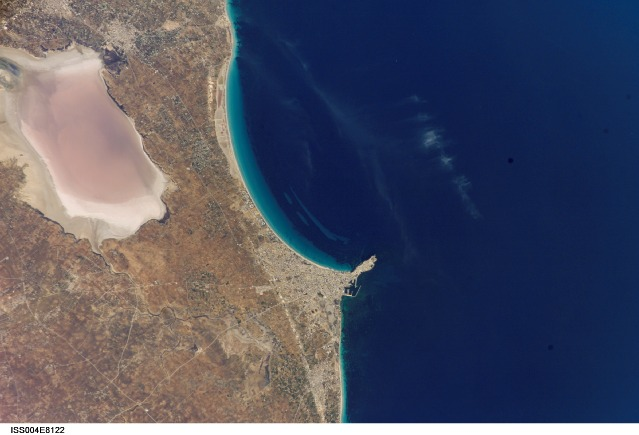 Satellite picture of Sebkhet Moknine and La Mahdia, Tunisia